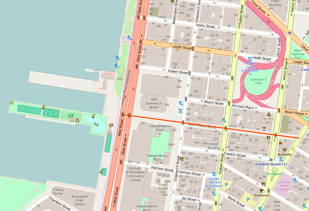 North Moore Street map, Tribeca, Manhattan, New York City, United States This map may be incomplete, and may contain errors. Don't rely solely on it for navigation.